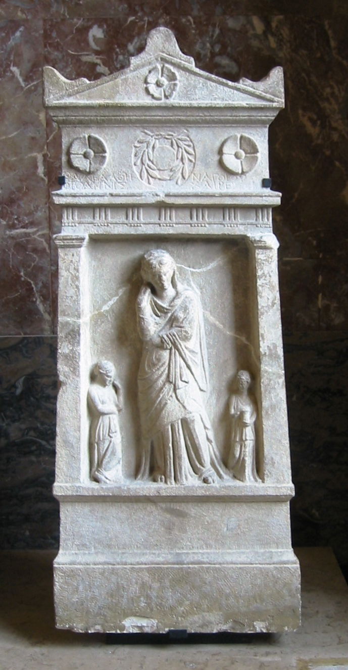 Funerary stele bearing the inscription: “Thalea, [daughter of] Athenagoras, [from the city of] Oroanna, hail!”. Found in Smyrna (now İzmir, Turkey). Marble, ca. 150 BCE, Hellenistic work.